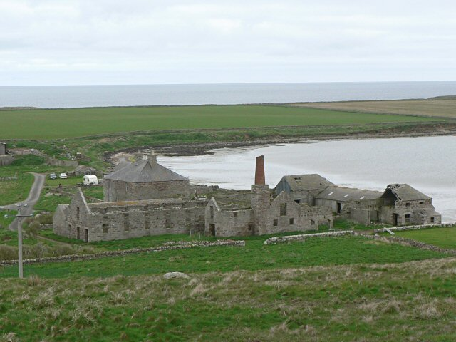 Stove model farm. These are the ruins of a 19th century 'model farm' with a steam engine house.